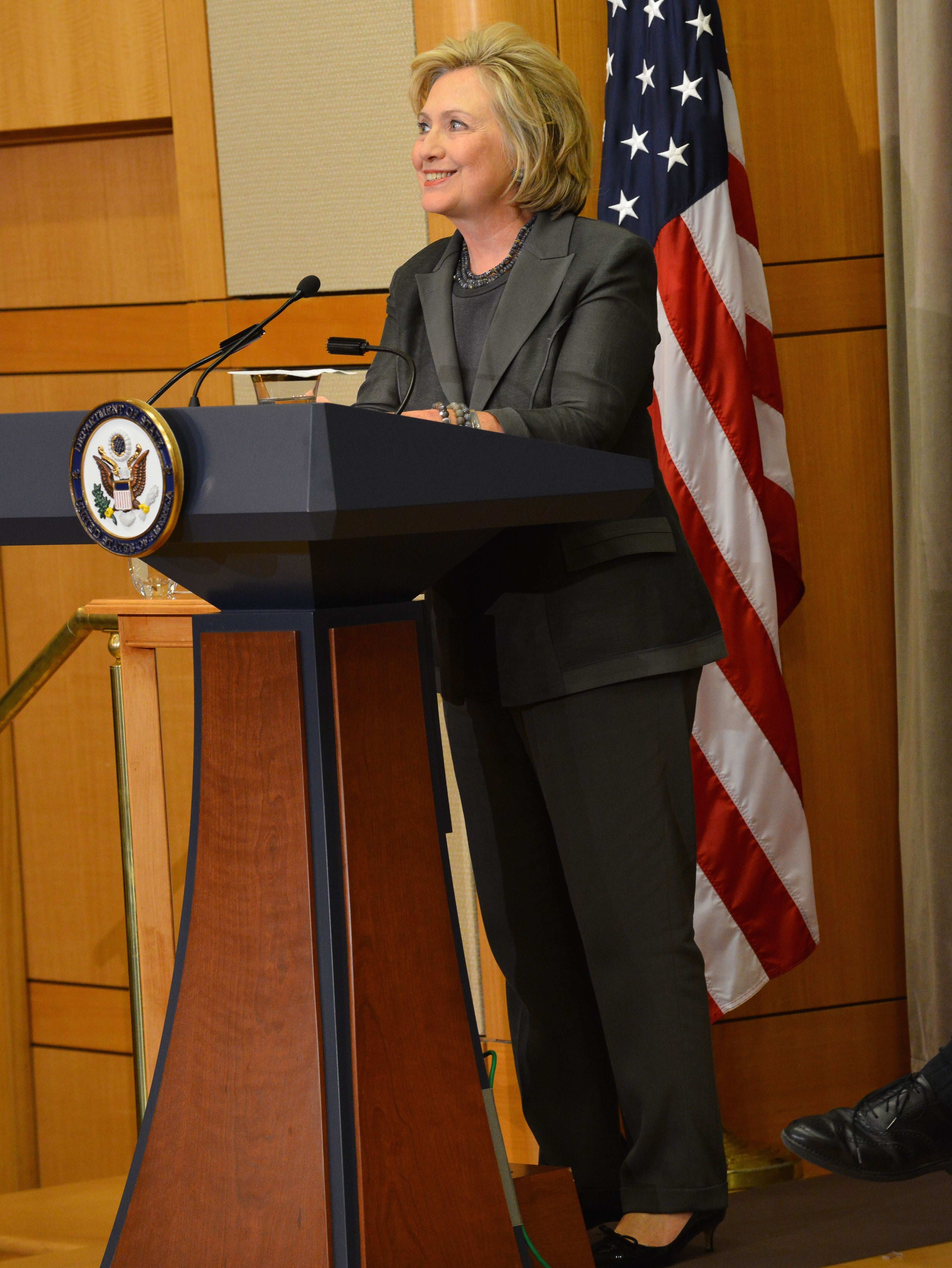 Former Secretary of State Hillary Rodham Clinton delivers remarks with Secretary of State John Kerry and former Secretaries of State Henry A. Kissinger, James A. Baker, III, Madeleine K. Albright, and Colin L. Powell at the Groundbreaking Ceremony of the U.S. Diplomacy Center at the U.S. Department of State in Washington, DC on September 3, 2014. [State Department photo/ Public Domain]